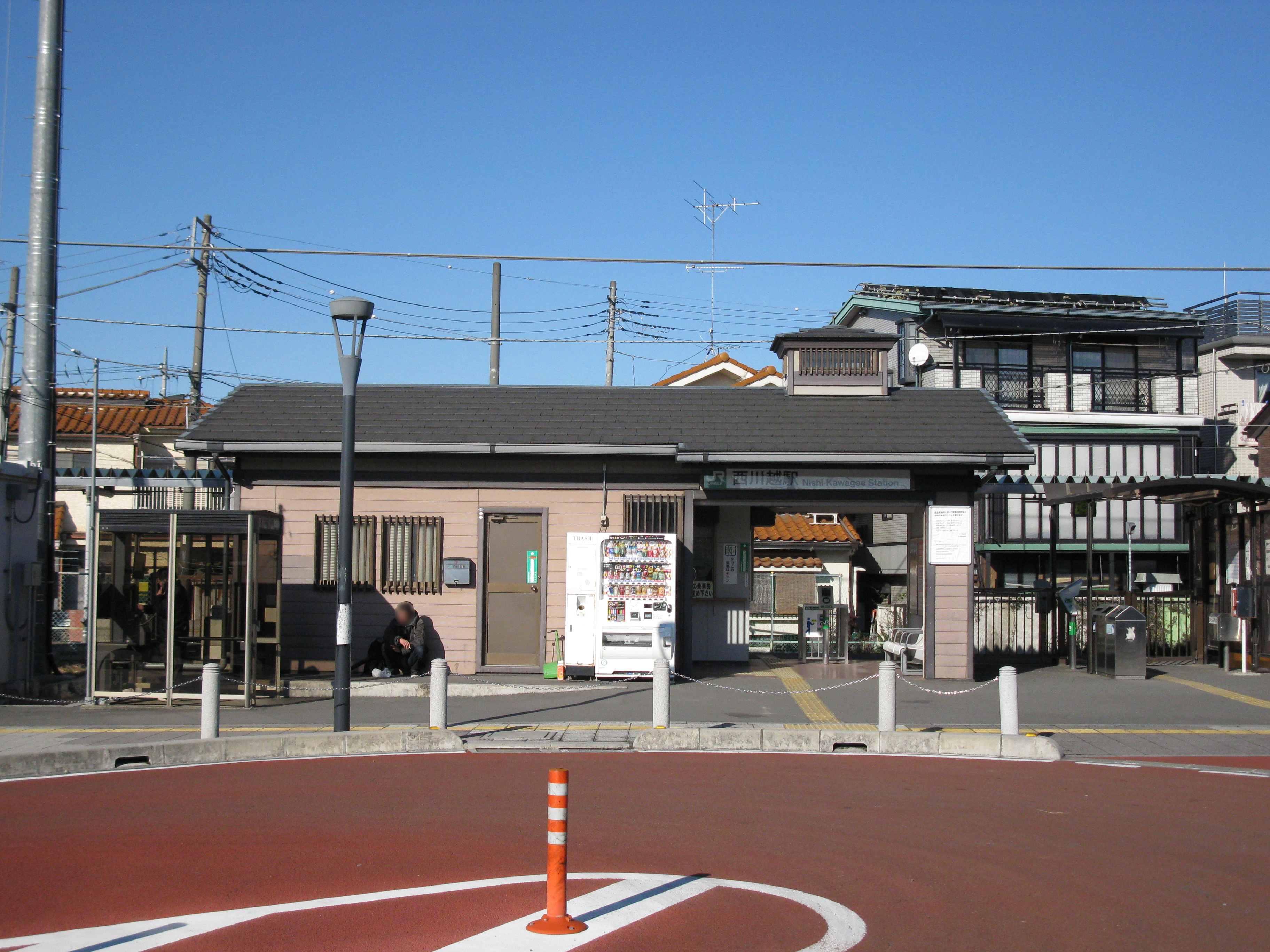 Nishi-Kawagoe Station building (East Japan Railway Kawagoe Line)